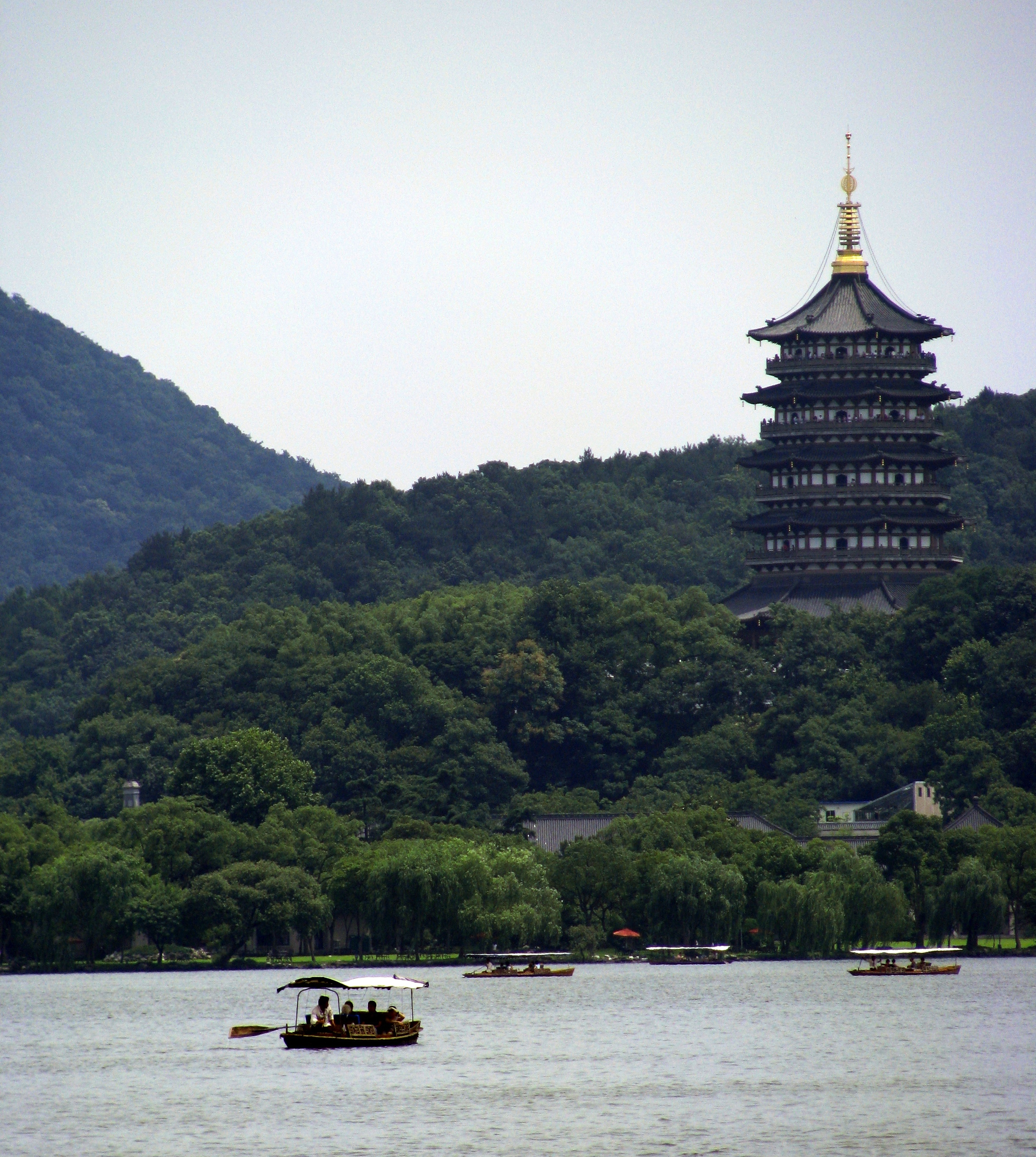 A view of the Leifeng Pagoda by day. Apparently the current building was built less than 10 years ago.